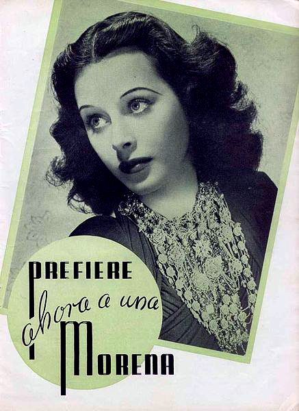 Publicity photo of Hedy Lamarr for Argentinean Magazine. (Printed in USA)